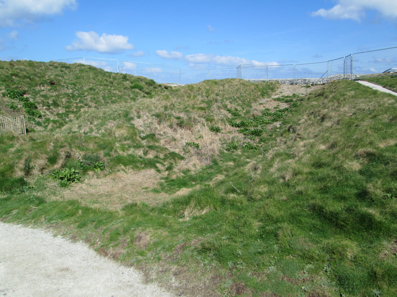 Defensive ramparts, seen from the south; they are just east of the bridge connecting the western part of Trevelgue Head to the landward side.